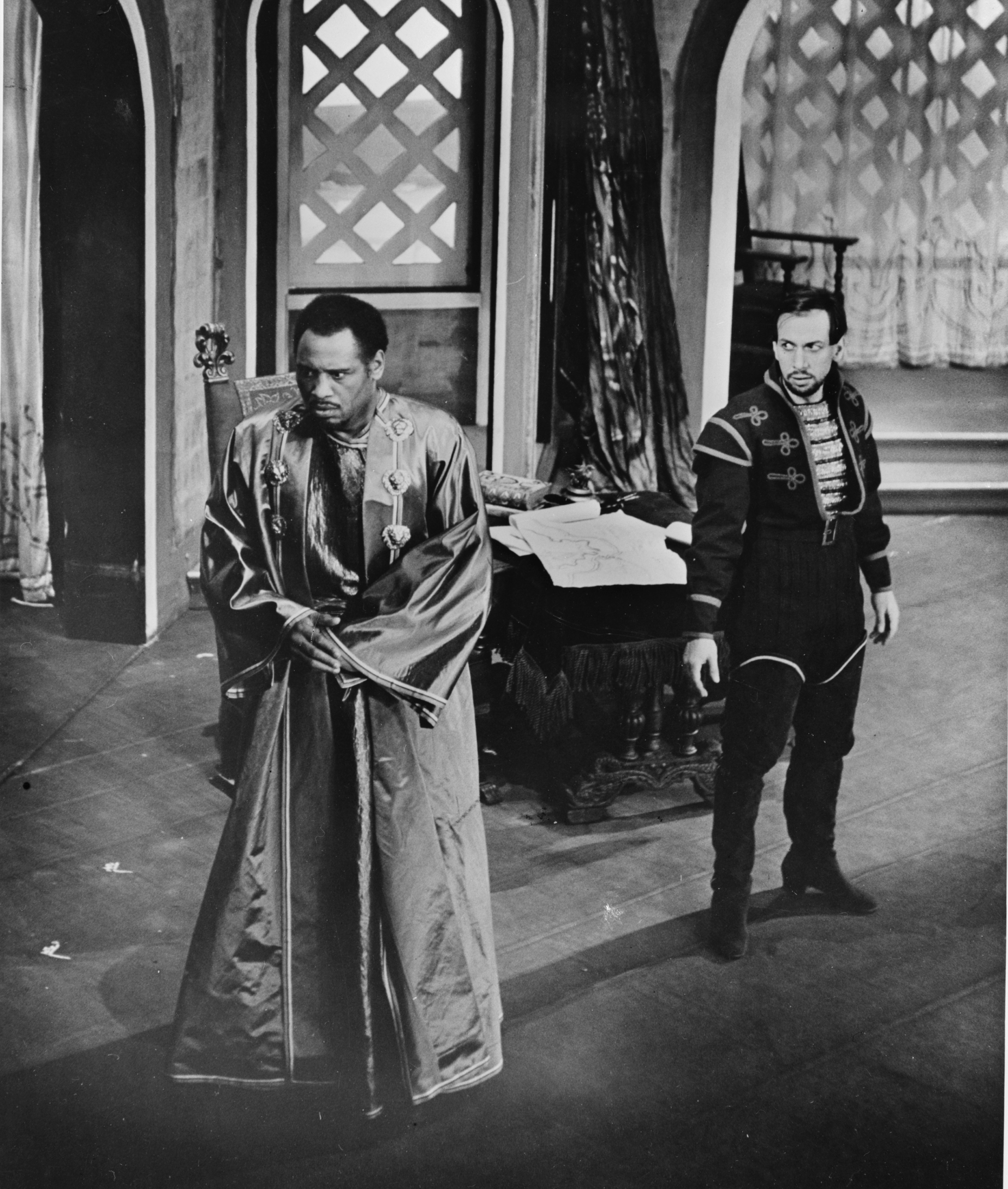 Title: [Scene from "Othello" with Paul Robeson (left), Theatre Guild Production, Broadway, 1943-44] Date Created/Published: [1943 or 1944] Medium: 1 negative ; 5 x 7 inches or smaller. Reproduction Number: LC-USW331-054941-ZC (b&w film neg.) Rights Advisory: No known restictions on images made by the U.S. government; images copied from other sources may be restricted. For information, see U.S. Farm Security Administration/Office of War Information Black & White Photographs( Call Number: LC-USW331- 054941-ZC [P&P] Repository: Library of Congress Prints and Photographs Division Washington, D.C. 20540 Notes: Title and date based on negative LC-USW33-054945. Transfer; United States. Office of War Information. Overseas Picture Division. Washington Division; 1944. More information about the FSA/OWI Collection is available at fsa.8e07910